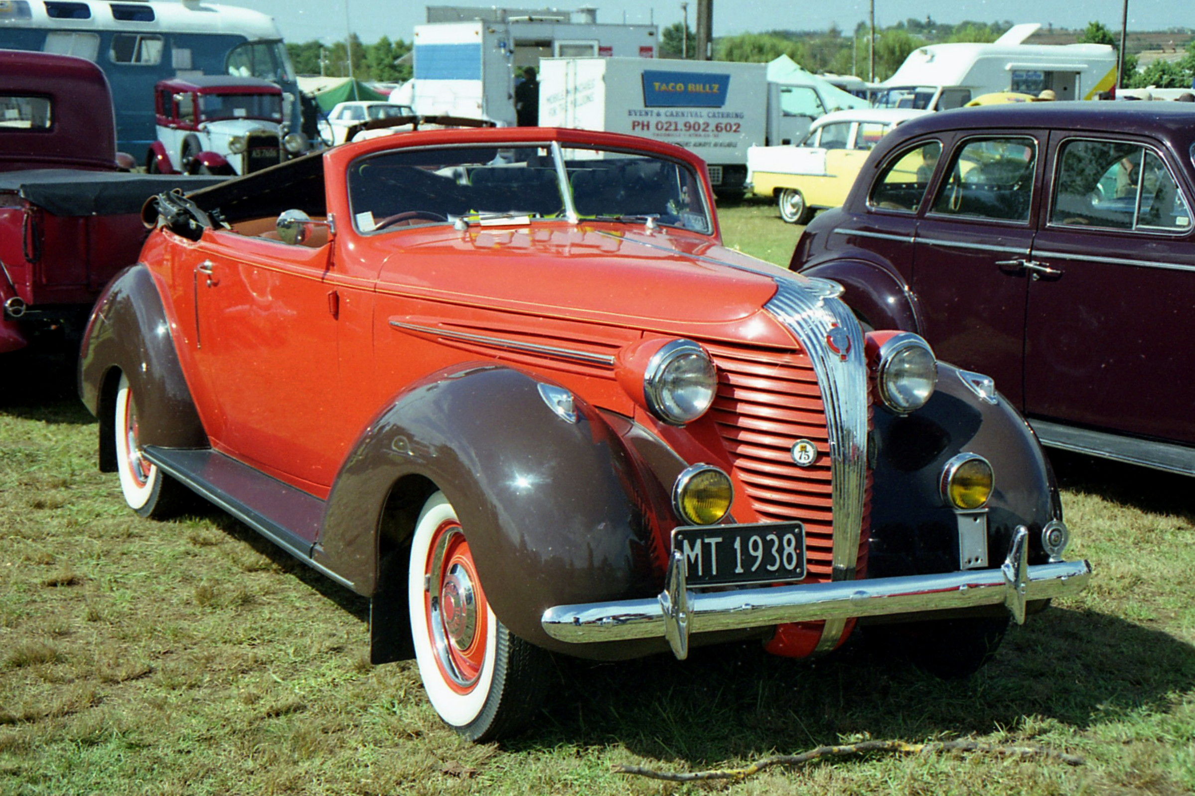 Pukekohe,New Zealand